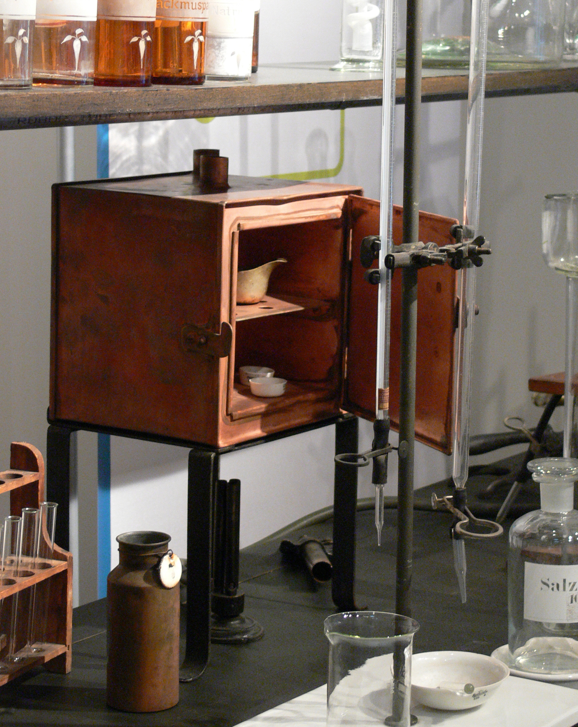 Cabinet desiccator (dry box), Zucker-Museum Berlin, Germany.